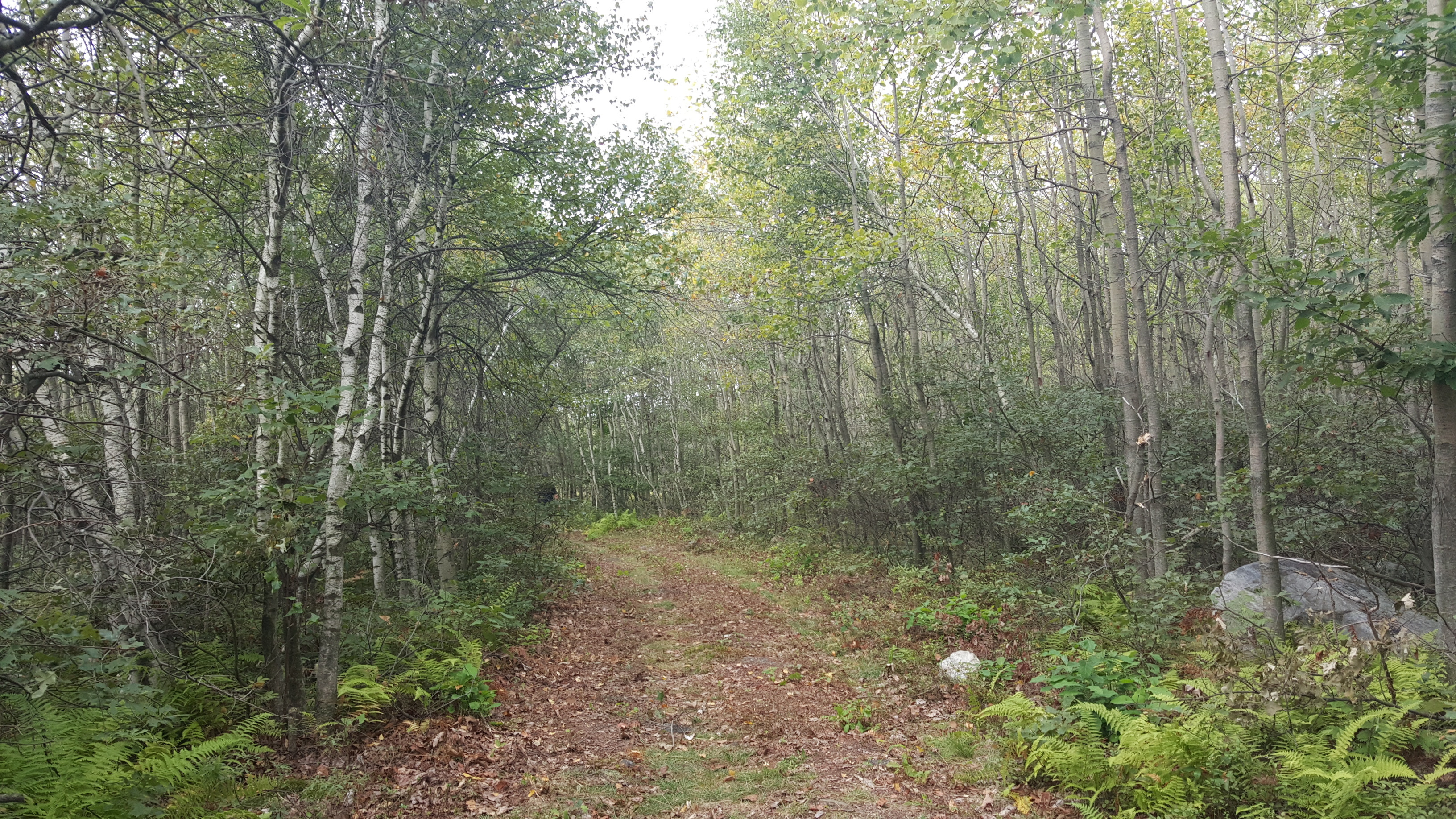 A grove of aspens and birch trees along the Mount Tammany Fire Road on Kittatinny Mountain, Warren County, New Jersey. 09.09.2015